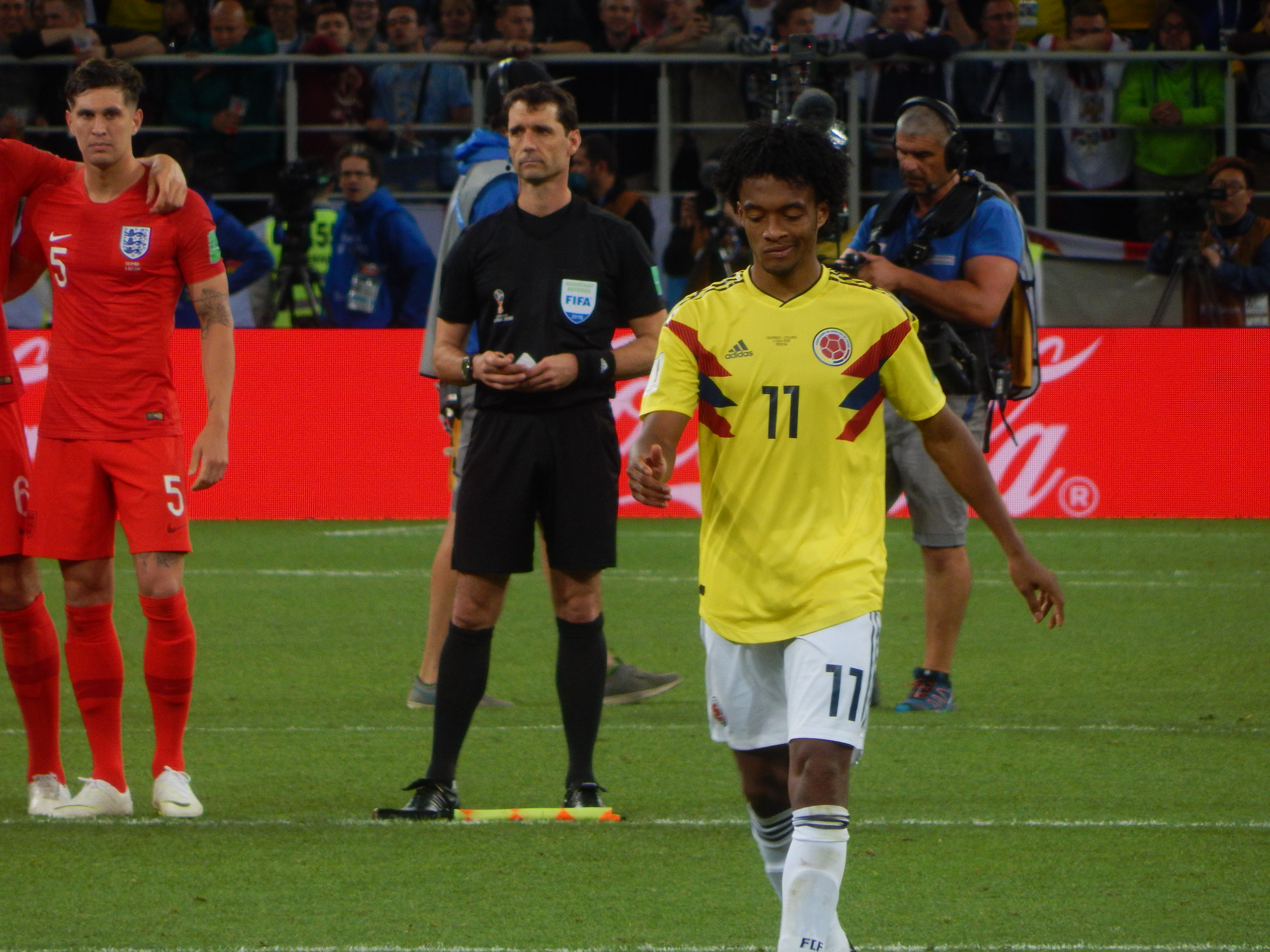 FIFA World Cup 2018, Round of 16, Colombia vs. England. Juan Cuadrado before his penalty kick during the shoot-out